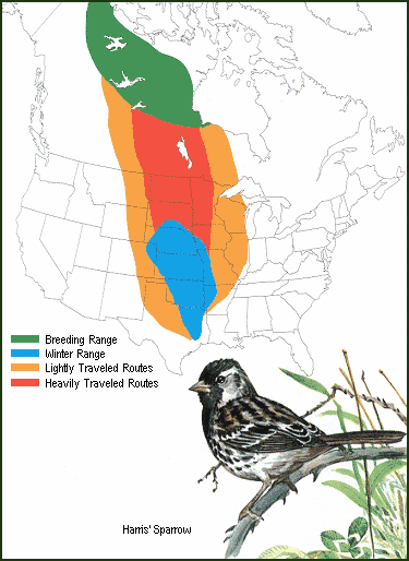 Migration route of the Harris' Sparrow (Zonotrichia querula)